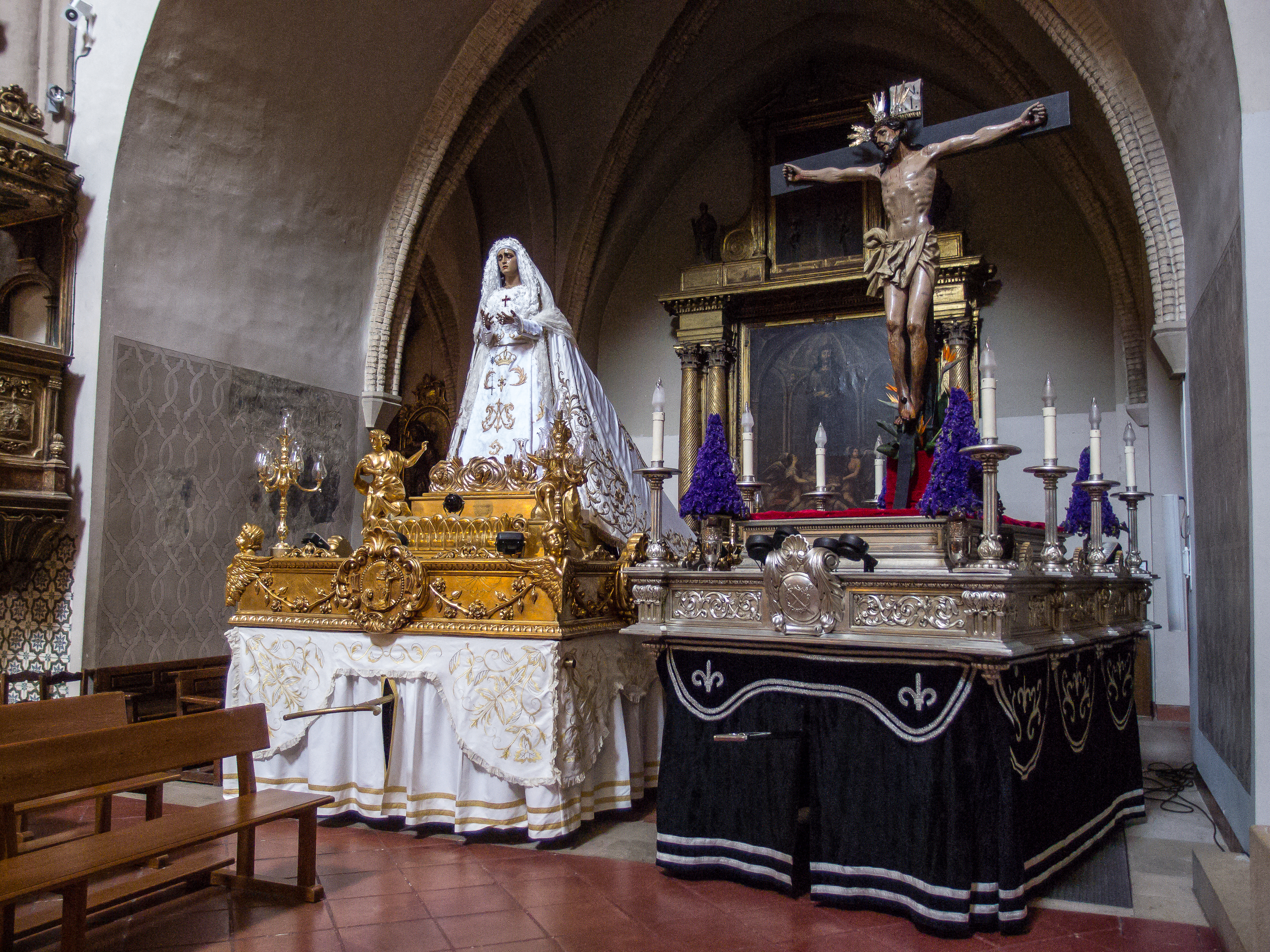 OLYMPUS DIGITAL CAMERA This is a photography of a Folklore festival in Spain (Wikidata id Q9075892).